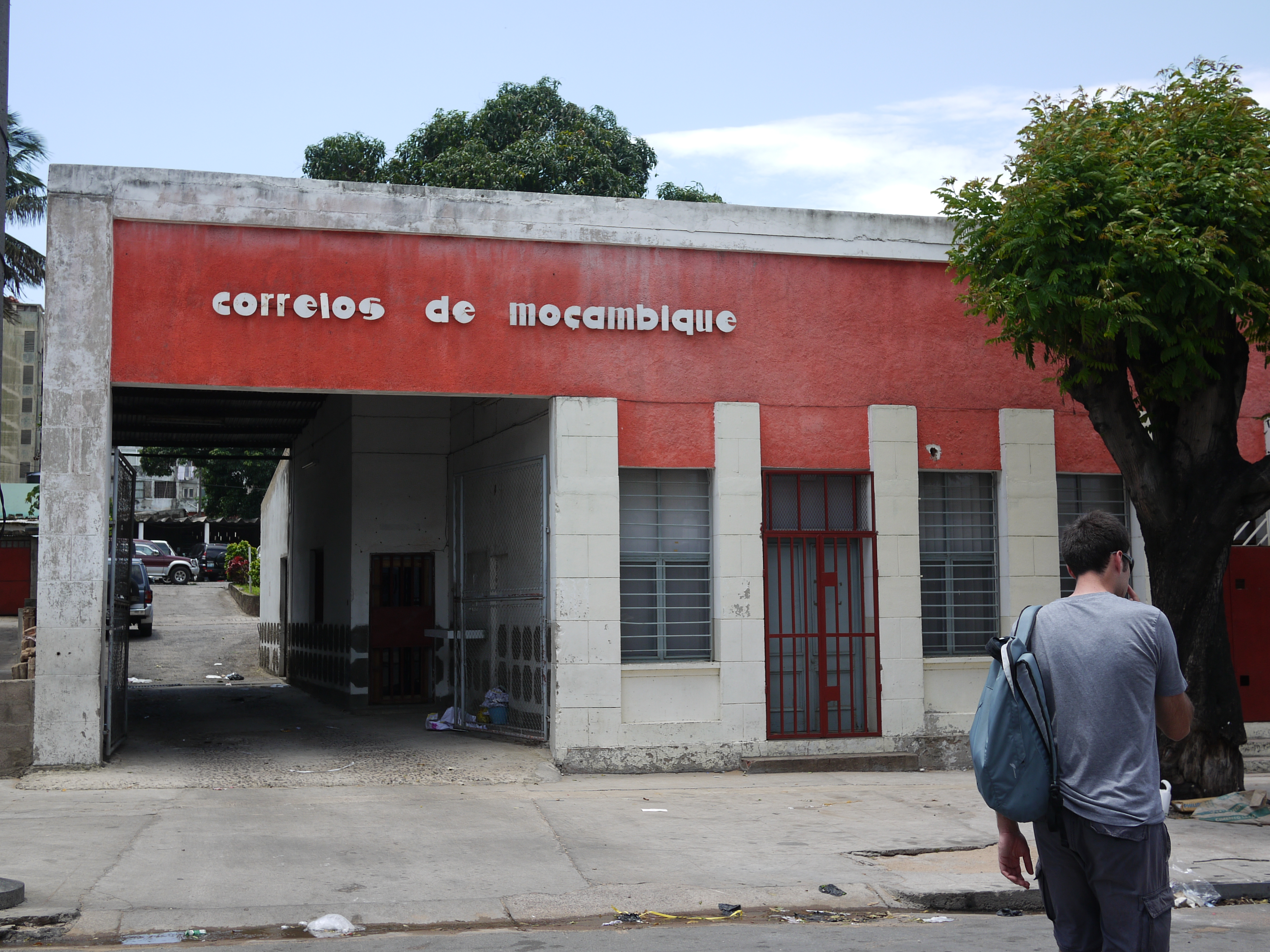 Post office in Inhambane, Mozambique